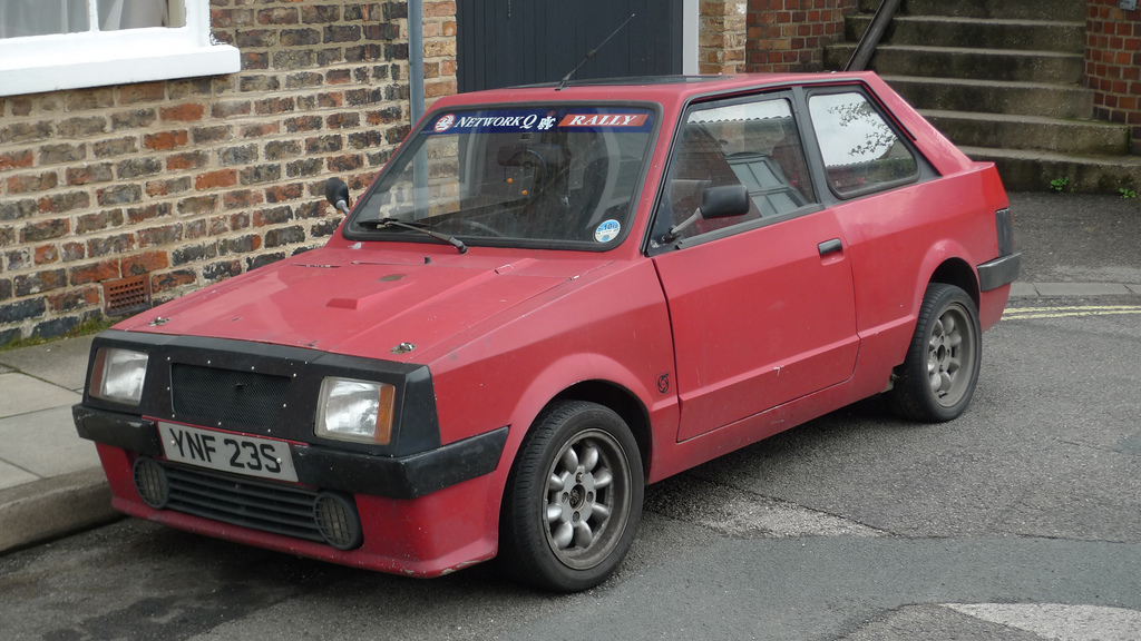 MK1 Sabre Sprint - Square Headlights